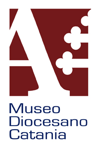 Logo del Museo Diocesano di catania